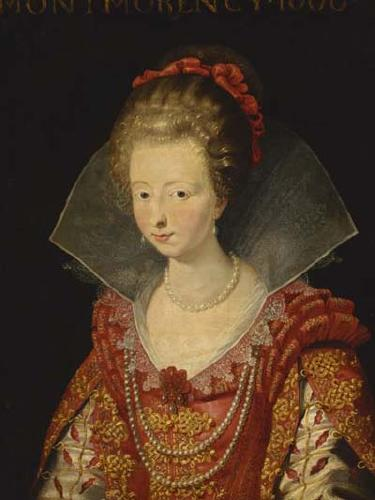 Portrait of Charlotte Marguerite de Montmorency (1594-1650)